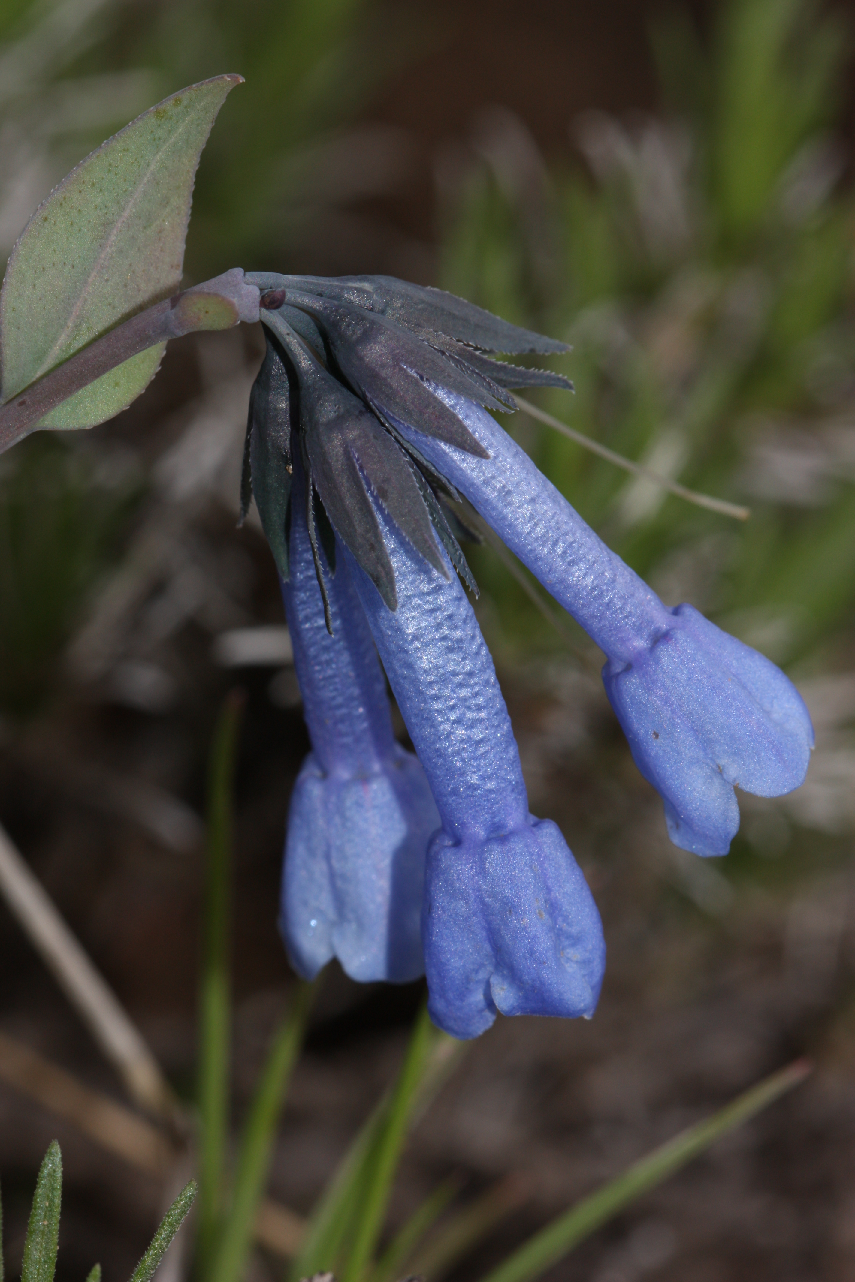 Small Bluebells, Long-flowered Lungwort, Trumpet Bluebells Viewpoint location: Snow Mountain Ranch, Cowiche Mountain Viewpoint elevation: 703 meter (2307 ft) Location source: Garmin GPSmap 60CSx Location Datum: WGS84